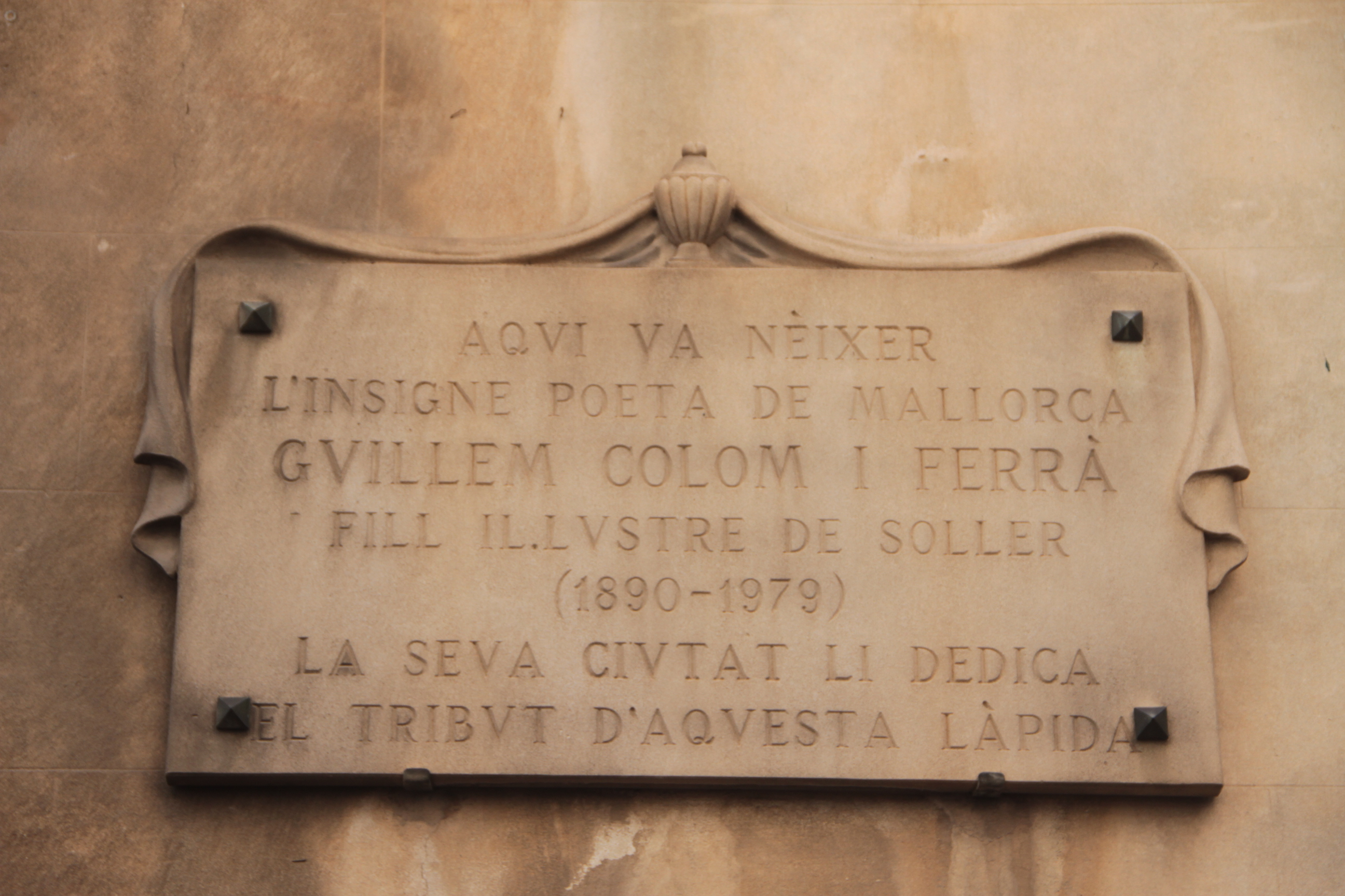 A plaque in memory of the Mallorcan poet Guillem Colom i Ferrà birthplace, Soller, Mallorca